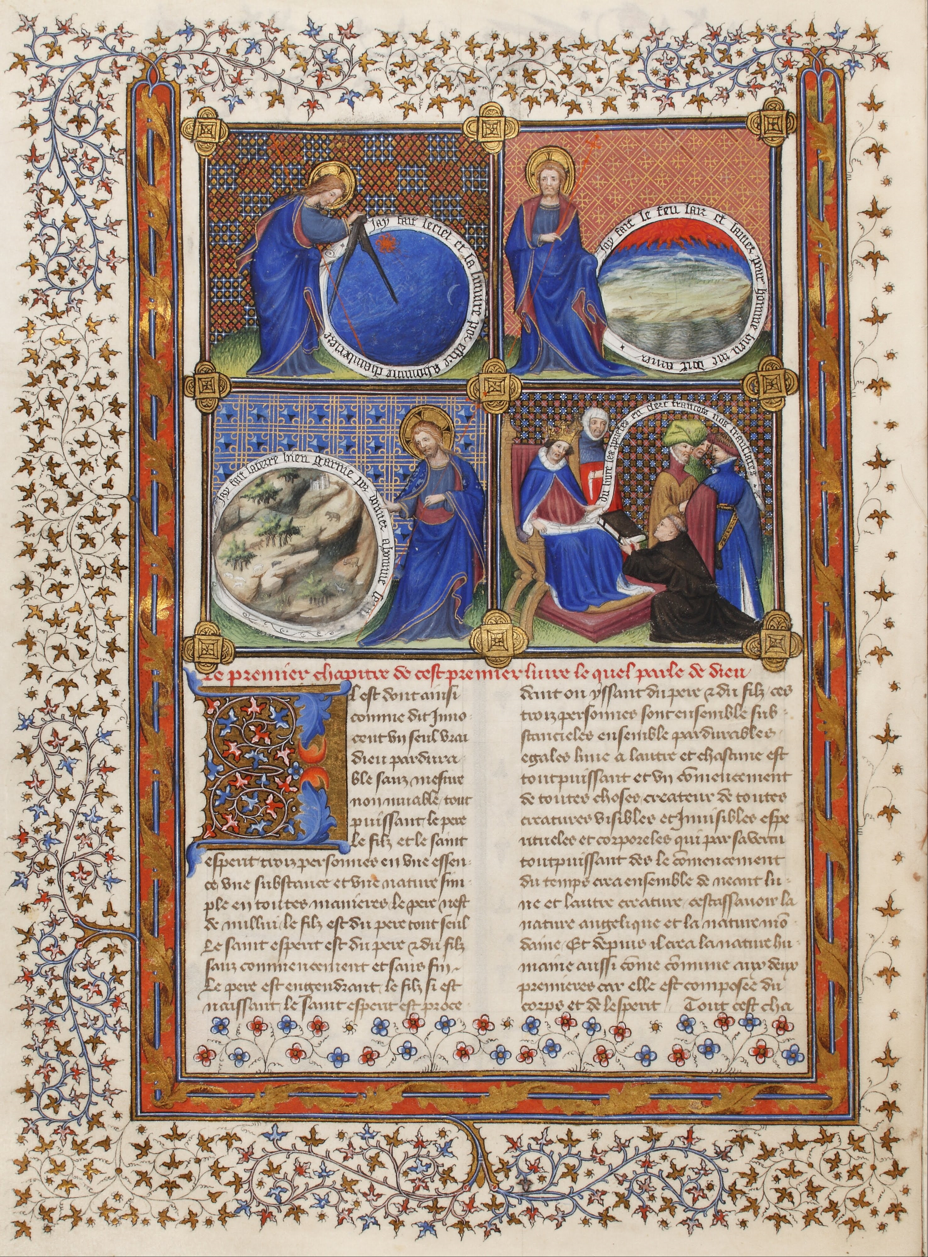 This codex contains the French translation of De proprietatibus rerum written by Bartholomaeus Anglicus, commissioned by Charles V to Jean Corbichon. At the beginning of each chapter illustrations related to the text appear and, on the first page, scenes of Creation and an introduction of the work by the translator. The codex, made around 1400, presents one binding of the XVI Century, with corners and coat of golden copper, with the arms of Claude d'Urfé.